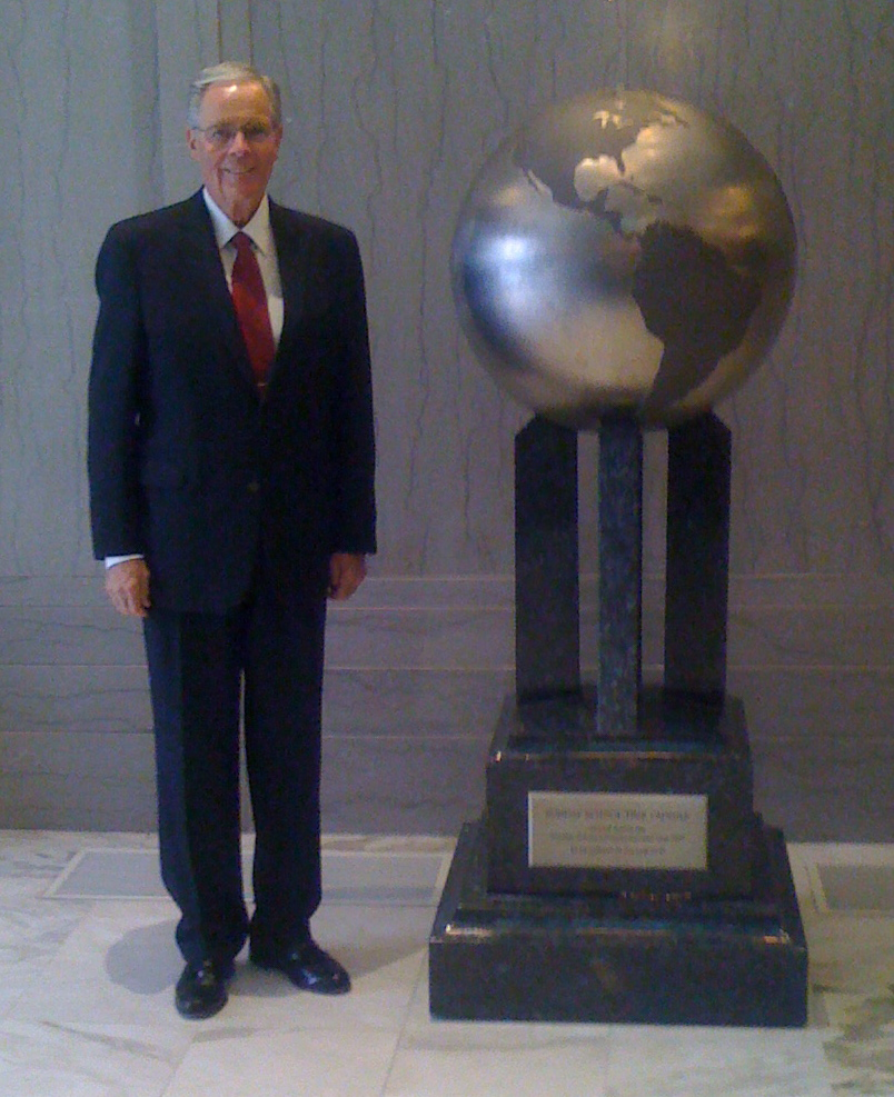 Harold Hillam standing next to the LDS sunday school time capsule, to be opened December 8, 2049.